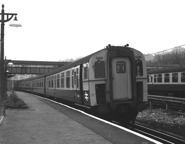 Guildford Station A 4-CIG unit at Guildford